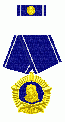 Scharnhorst-order of the GDR